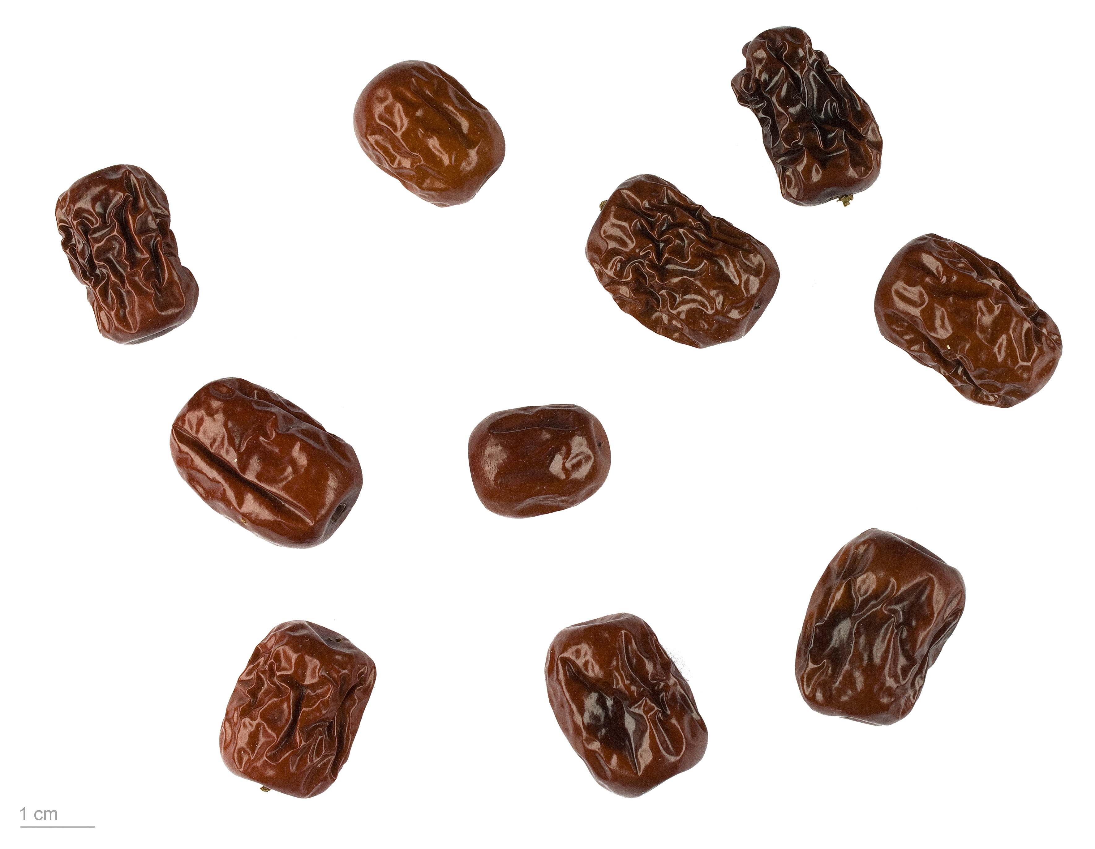 Jujube, red date , fruits and seeds